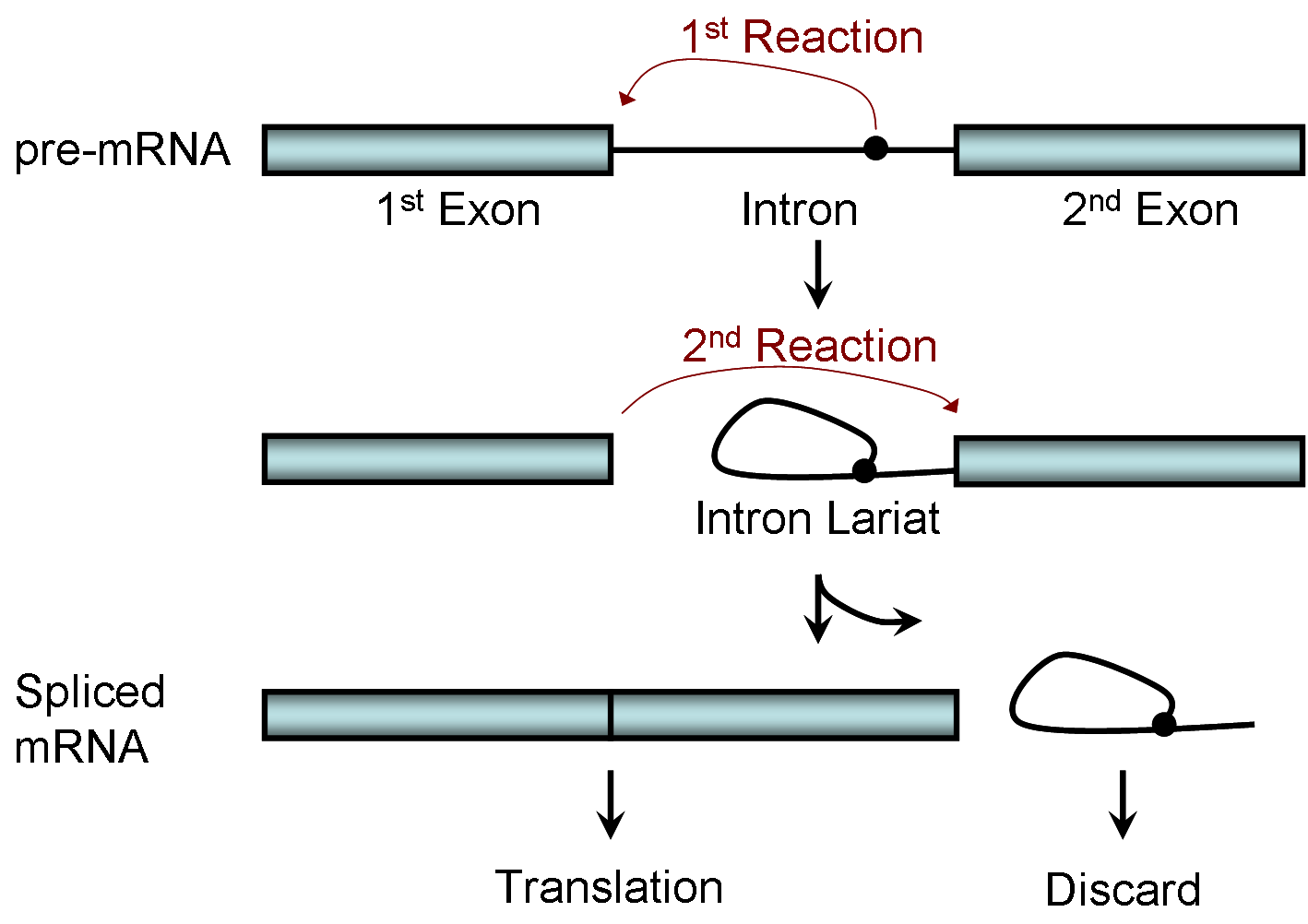 Cartoon illustrating the two-step chemistry of mRNA splicing.